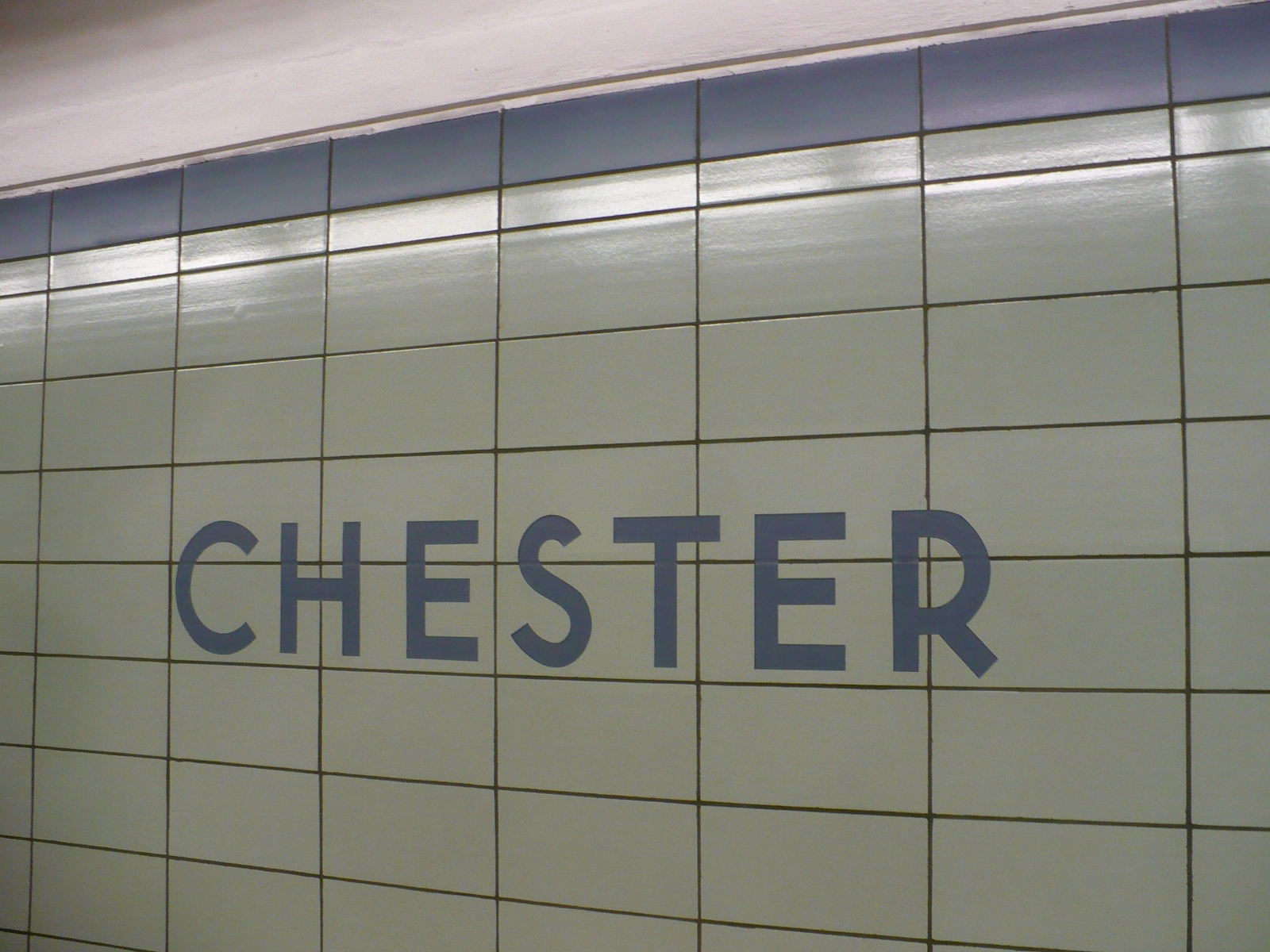 Chester subway station in Toronto, showing the design of the platform wall tiles